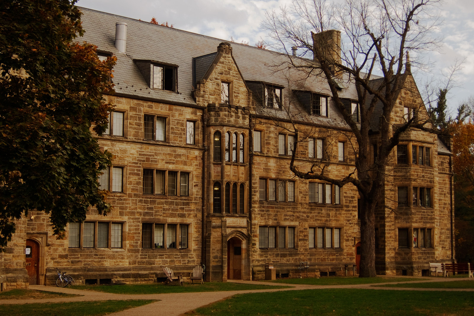 Kenyon College - Leonard Hall